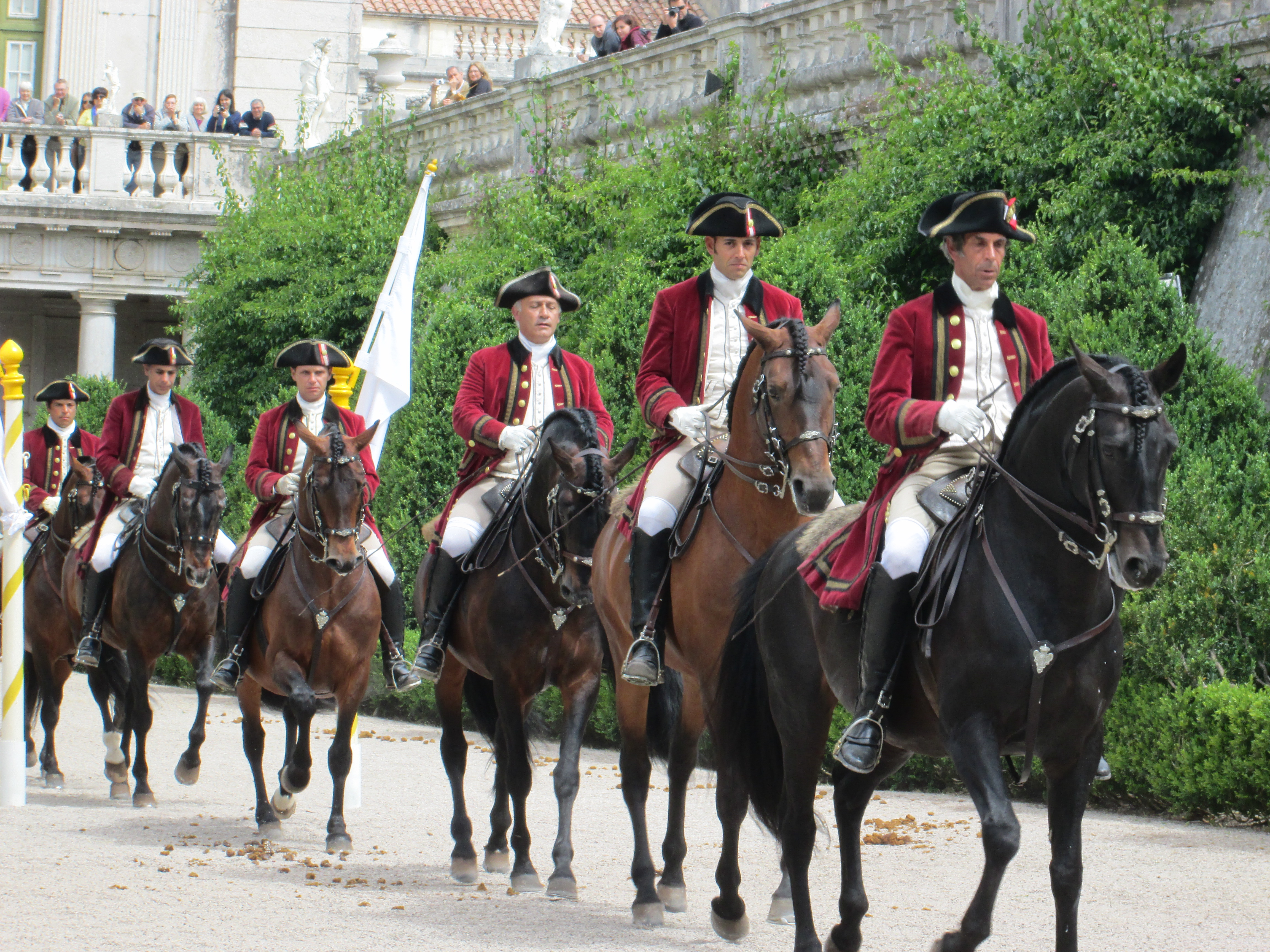 Riders approach at the Portuguese School of Equestrian Art on their Lusitano horses as they perform in the gardens of the National Palace of Queluz, the former royal residence situated 15 minutes from Lisbon, Portugal.